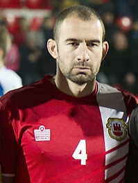 Danny Higginbotham vs. Estonia